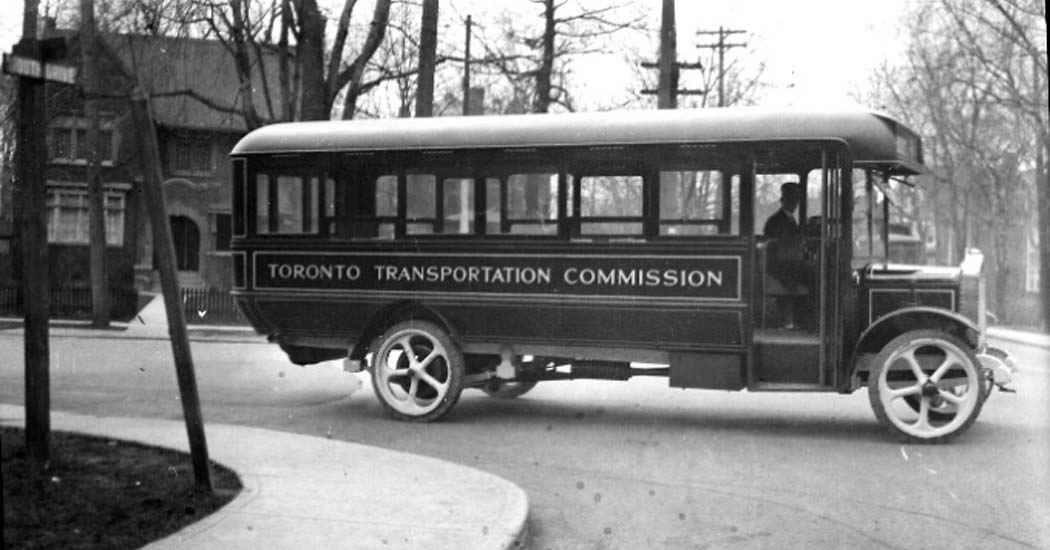 TTC bus (Notation: "Bus #9, group F, 5th Avenue single deck, engine #5720, 5721, bus #9, 10"). Photo taken in Yorkville. (Toronto, Canada)